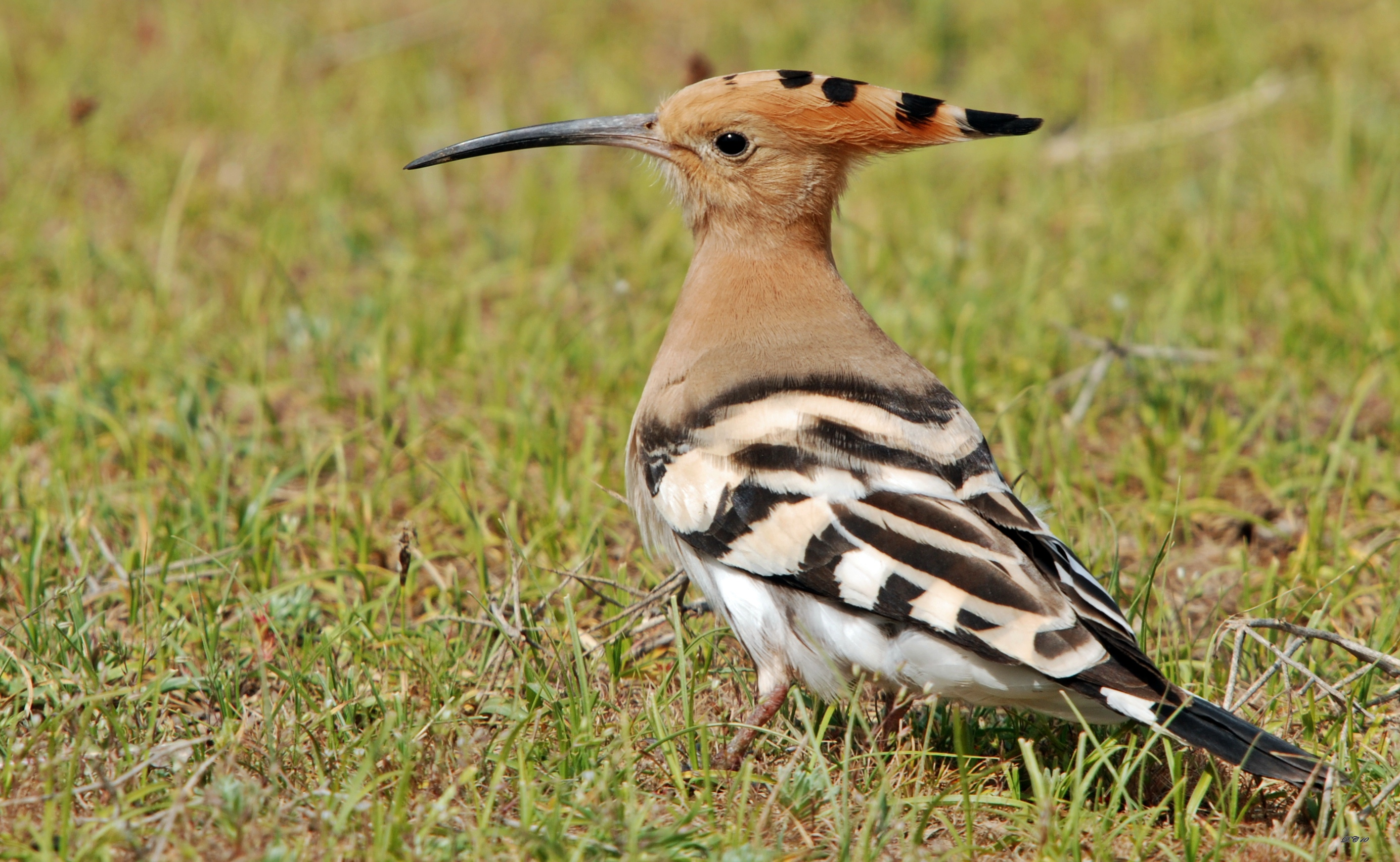 A Hoopoe in southeastern Turkey Kurdî: Li ber Çemê Dîcle di roja 13.04.2010 de min bi xwe kişandiye. Navê kurdî: Botbotik yan jî Sulêmanê dunikul. Nîkon D80/Sîgma 50-500mm